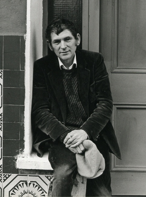 Hartnett